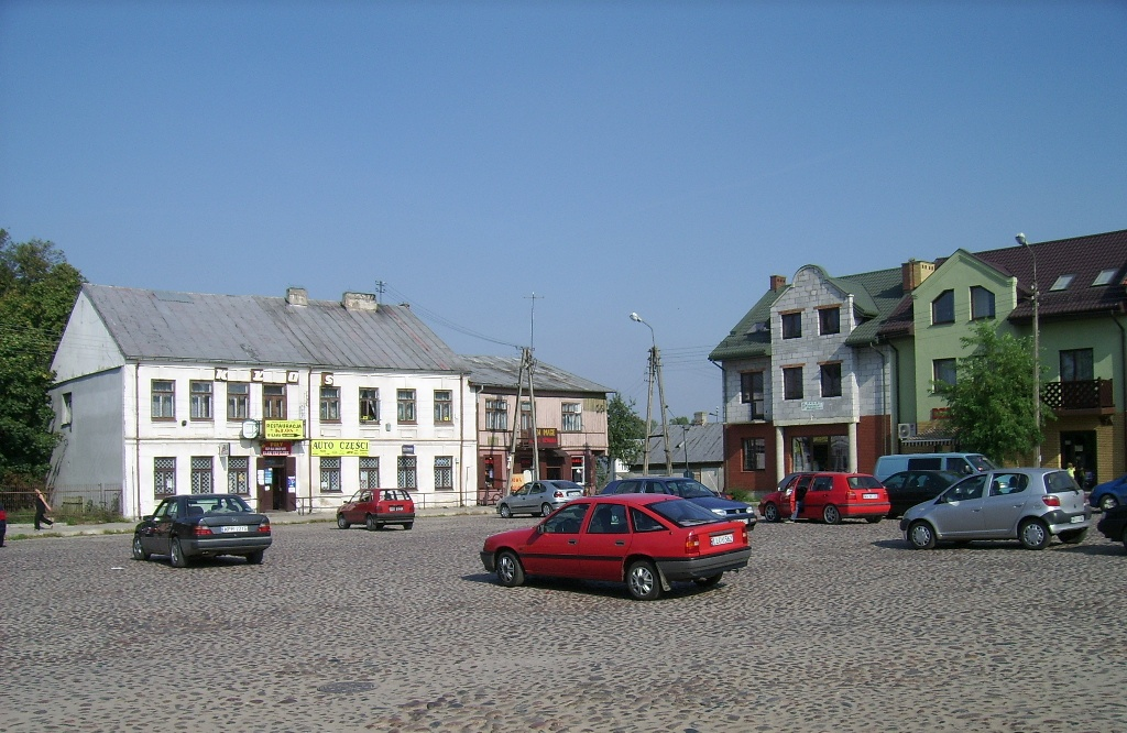 Market square in Żelechów, Poland